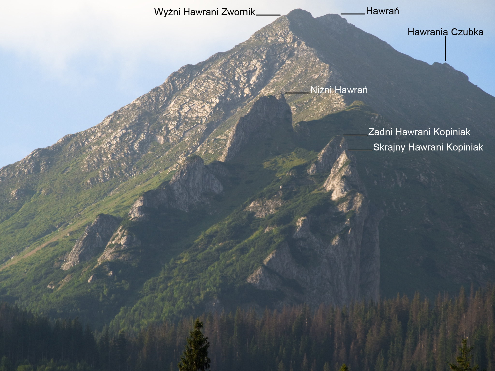 Havran as seen from Podspády